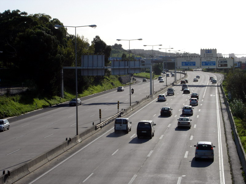 IC 17 (CRIL) in Lisbon